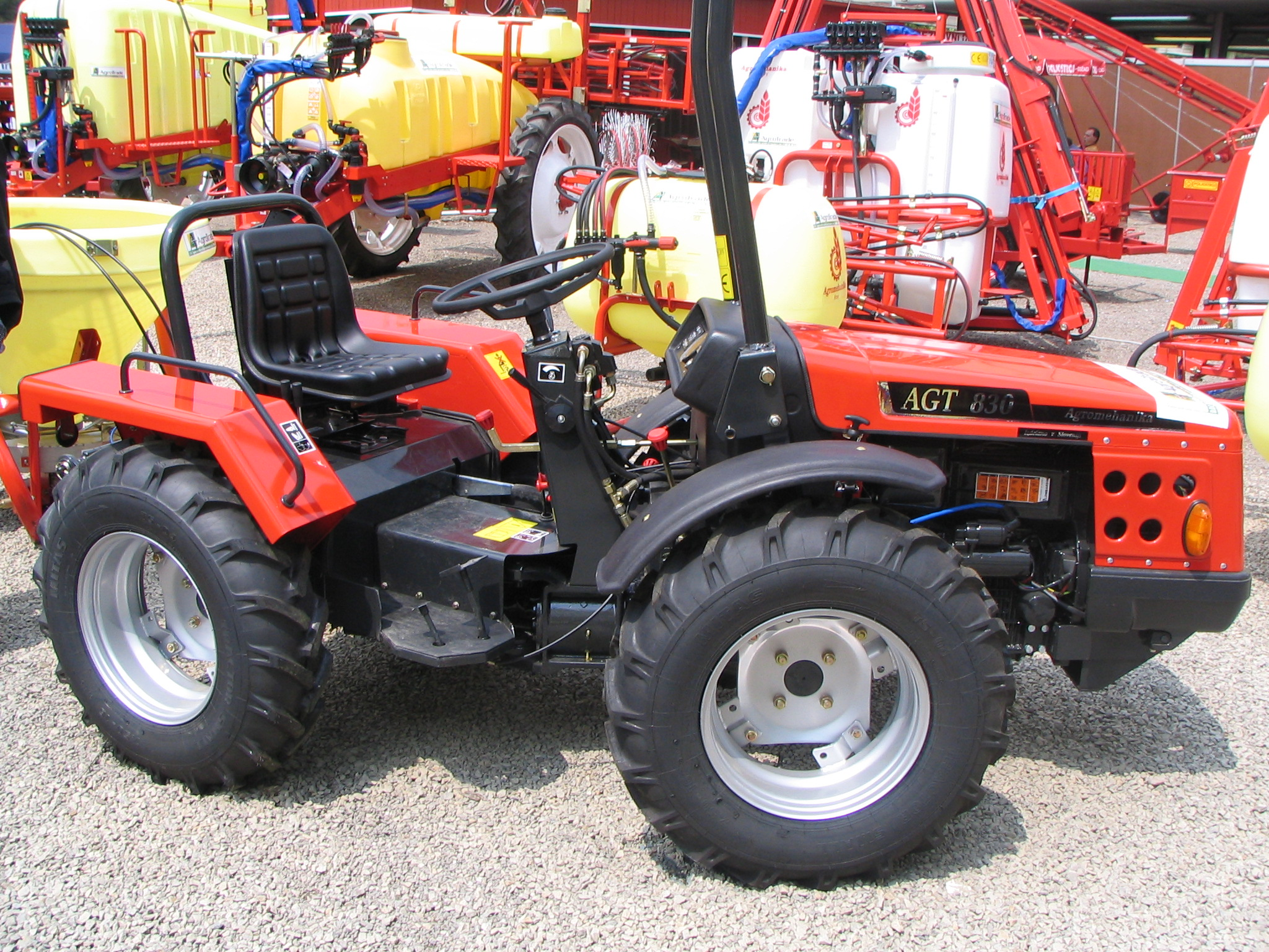 Articulating Tractor, Agricultural fair Novi Sad (photo: Mihailo Grbić)